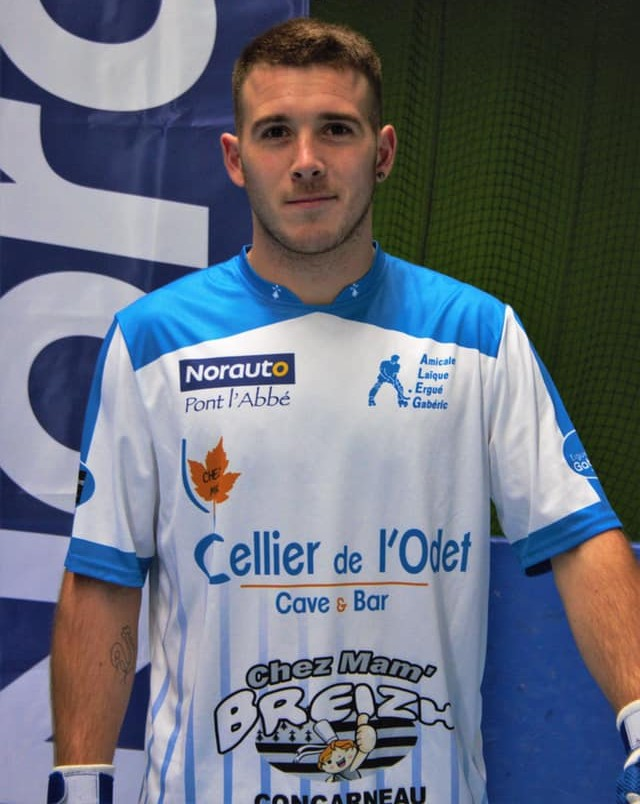 photo